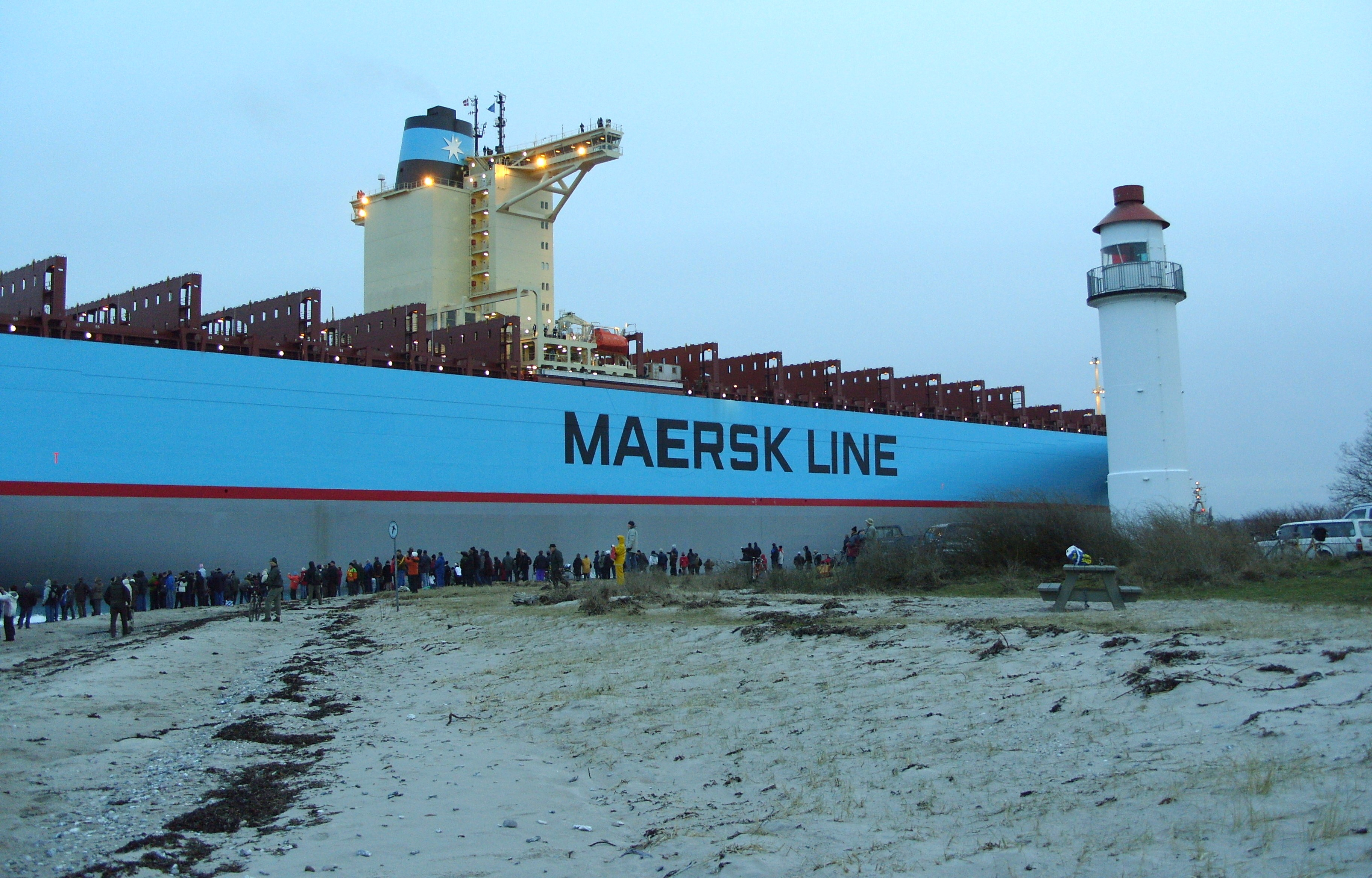 Lighthouse at Enebærodde and the container ship Eugen Maersk IMO Number: 9321550 MMSI Number: 220503000 Callsign: OXOS2 Length: 398 m Beam: 56 m The ship was built at the Odense Steel Shipyard, about three nautical miles south of the the lighthouse in the Odense Fjord. The fjord is shallow -- there's a 7 meter channel -- and there is no other industry there, so this is almost certainly the ship's first time underway. The center of the channel is about 100 meters from the center of the lighthouse -- a tight squeeze.